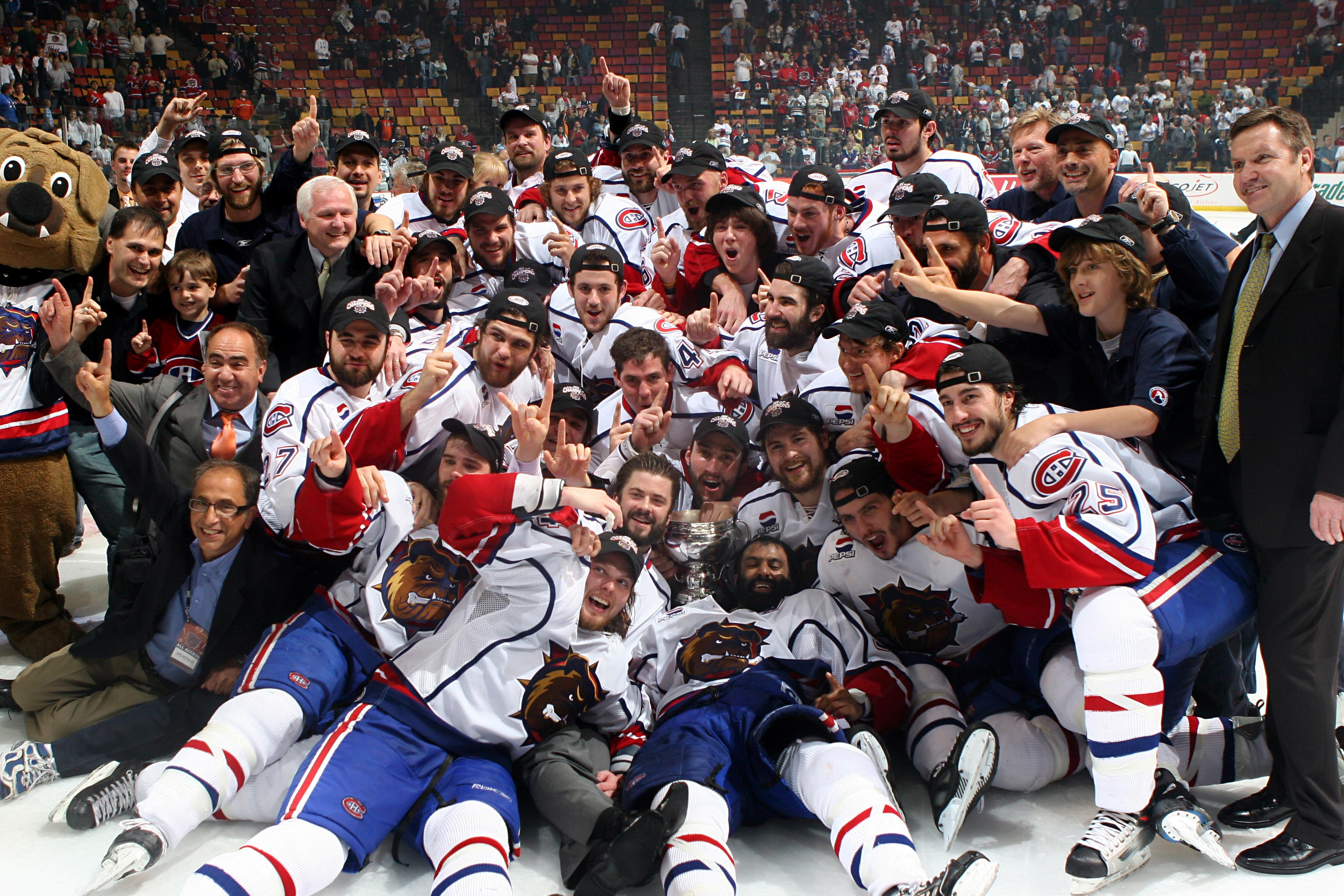 Photo: Hamilton Bulldogs